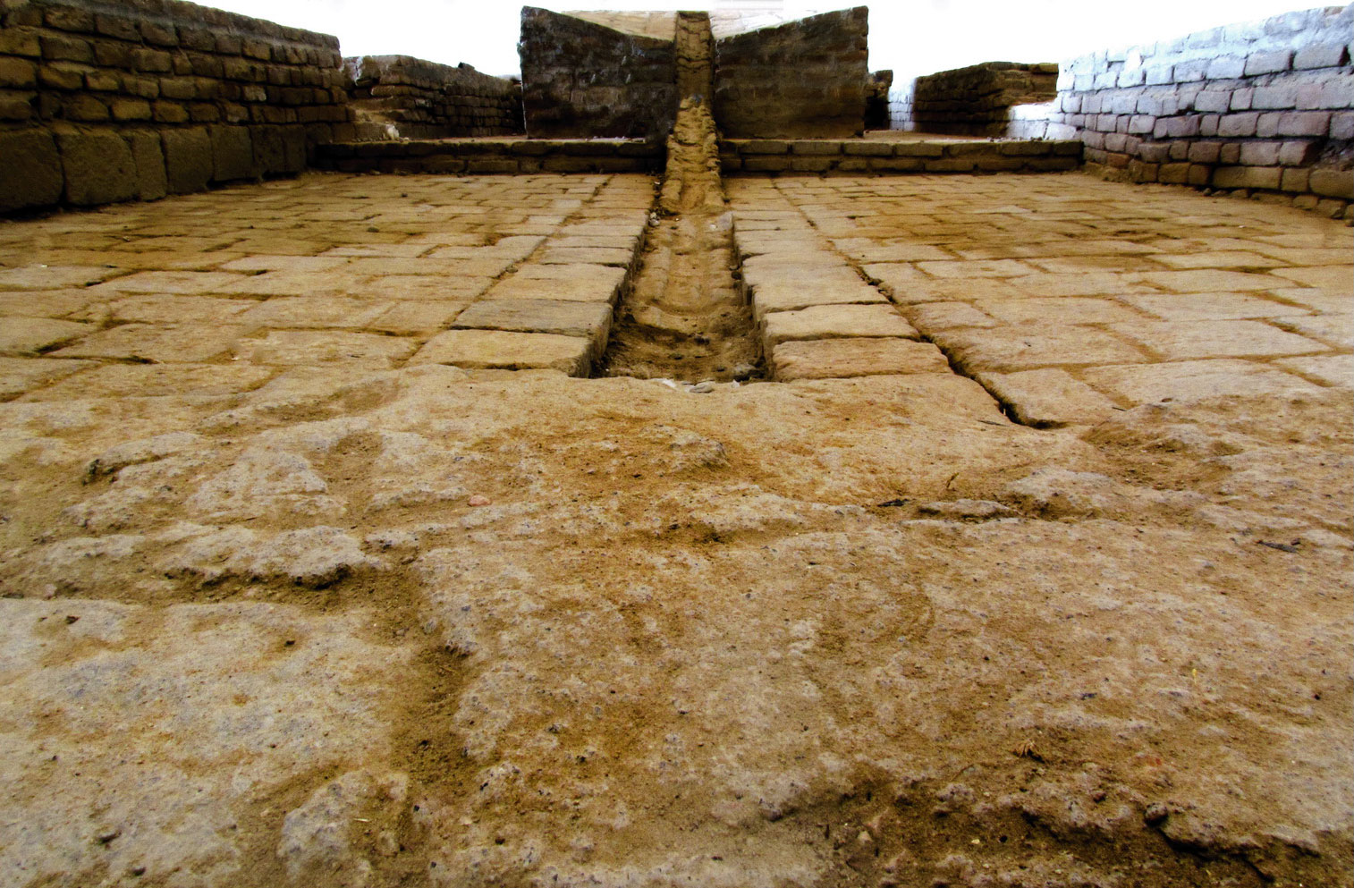 The rest of Maragheh observatory